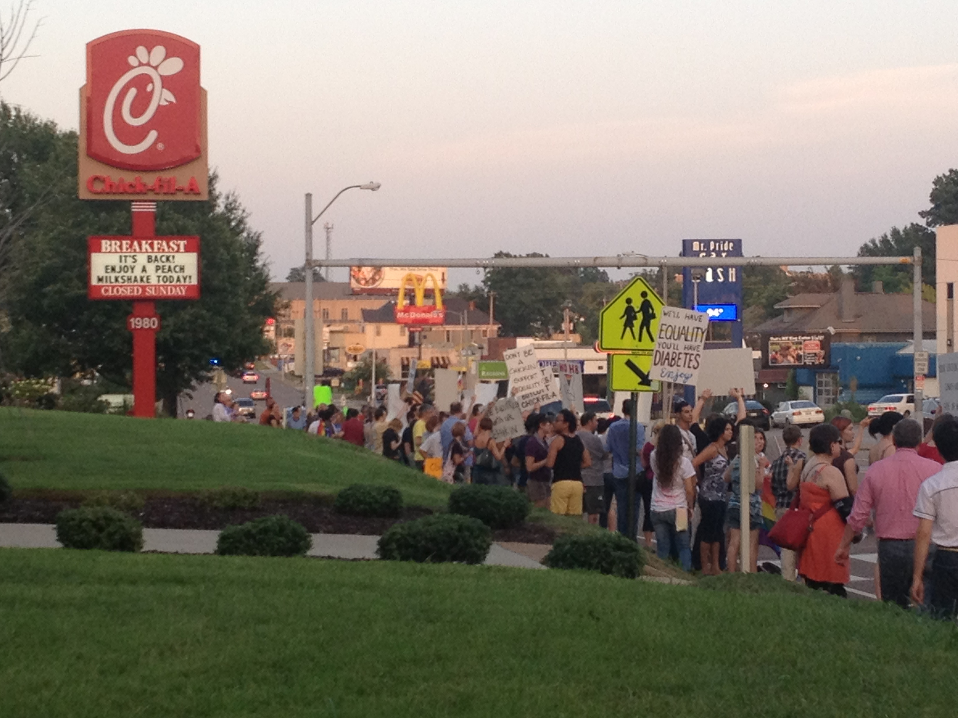 Protestors gathered in front of Chick-fil-A to protest Chick-fil-A's anti-gay stance (on Same Sex Kiss Day) in Memphis, Tennessee.